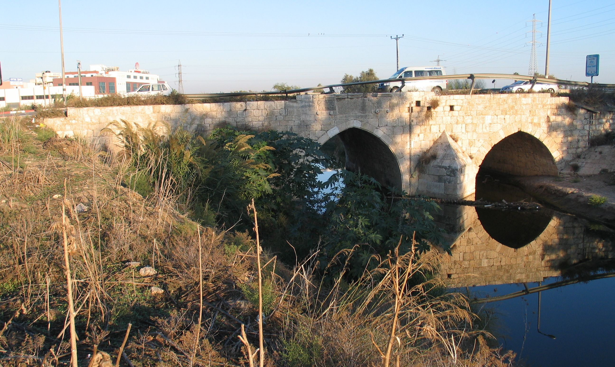 The "Baibars bridge" in Lod, Israel. Eastern side.